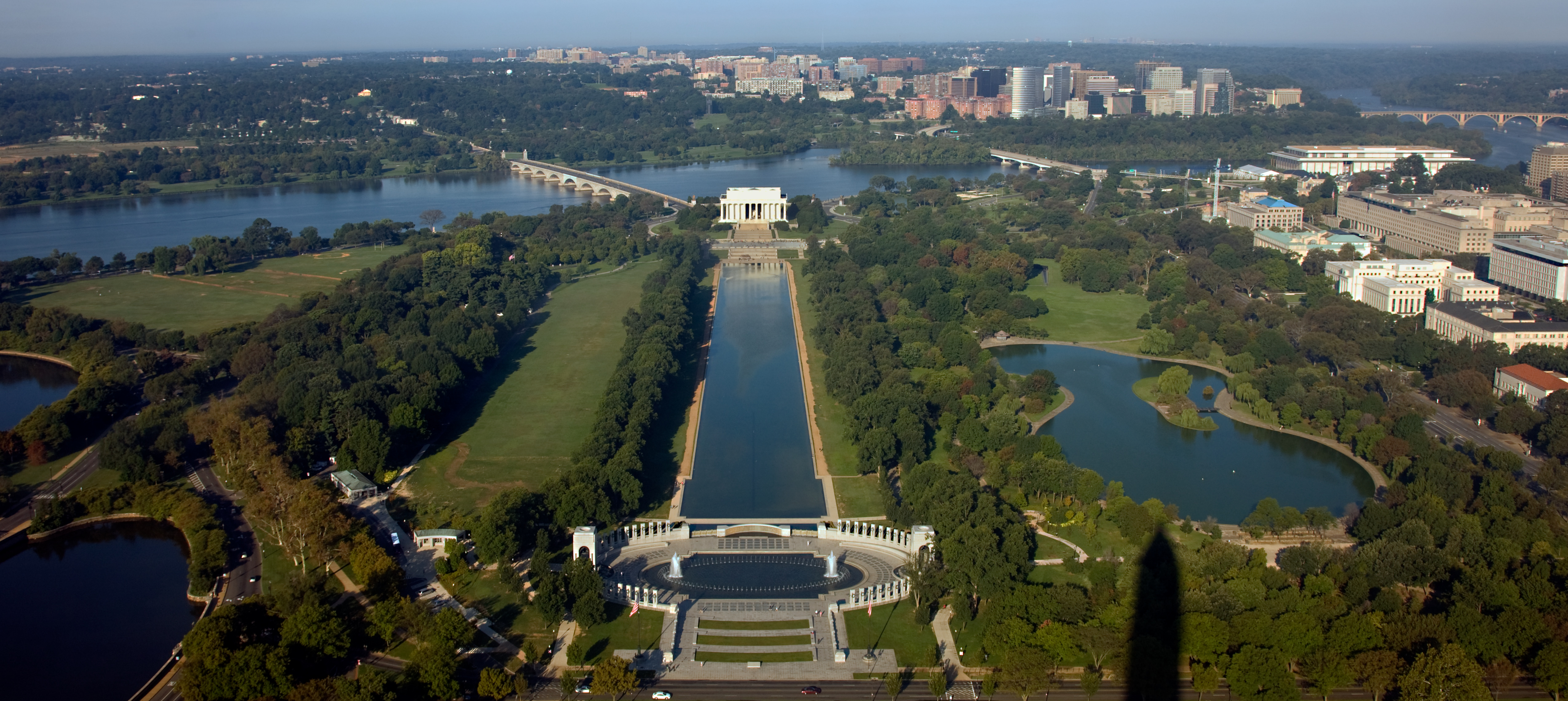 Aerial view of the Lincoln Memorial and National World War II Memorial in Washington, D.C., as viewed from the Washington Monument.